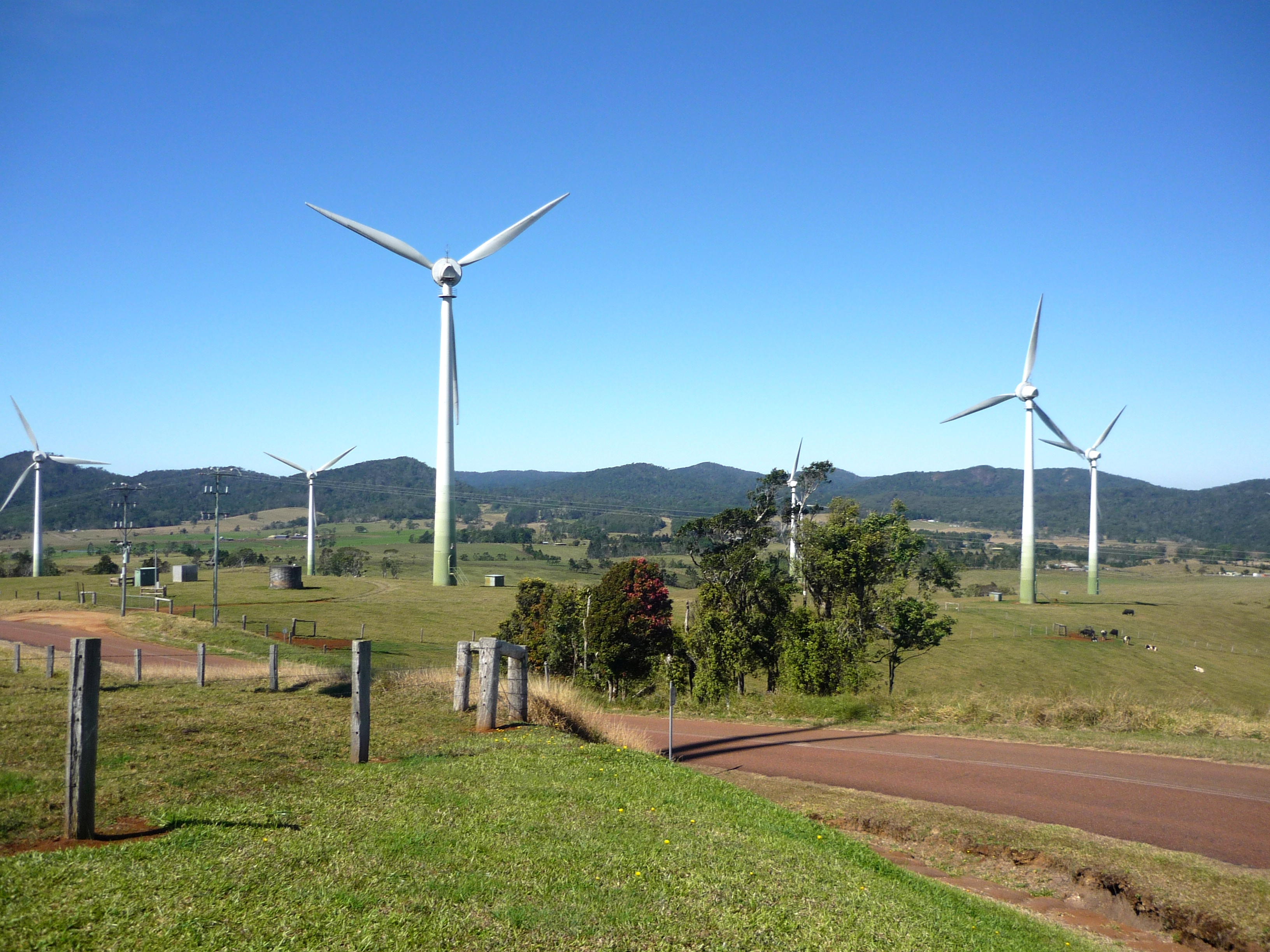 Photo of Windy Hill Wind Farm showing turbines.